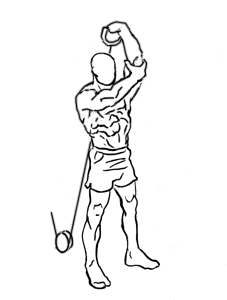 an exercise of triceps